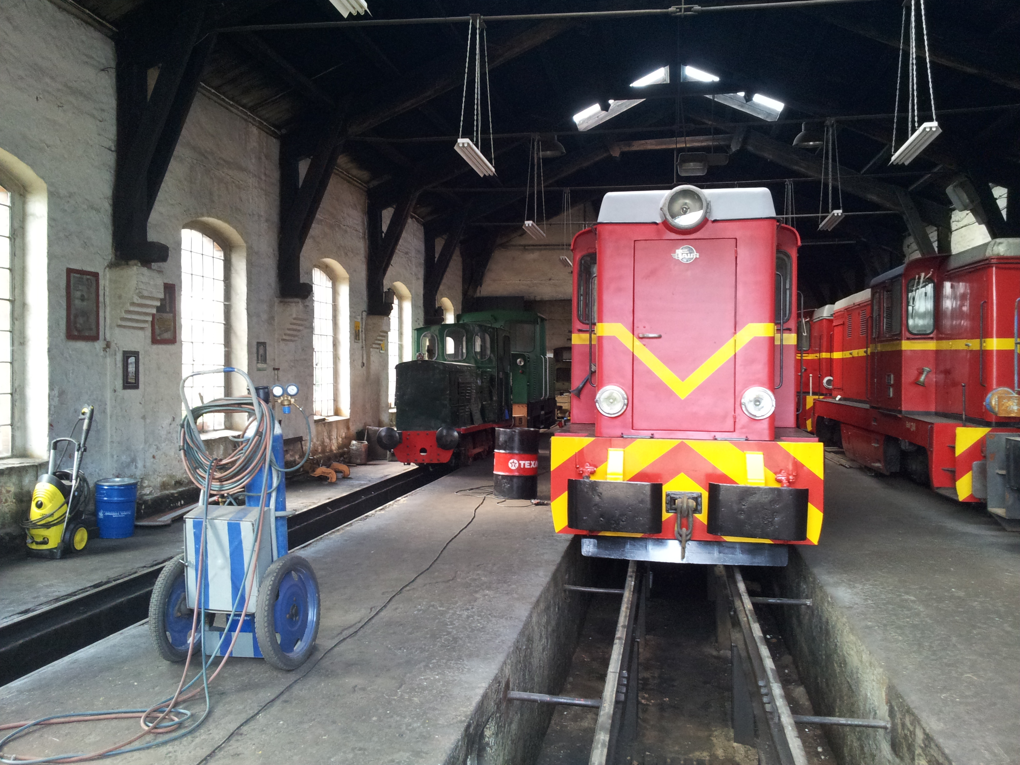 View of the Rudy depot, in the foreground Lxd2 (Faur L45H), in the background to the left: Fablok 2WLs50 and Fablok WLs150